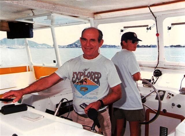 Retired Israeli Admiral Barkai operating a pleasure boat in San Marten port Caribbean